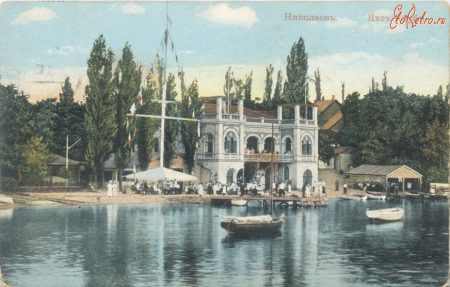 Яхть Клуб Николаев